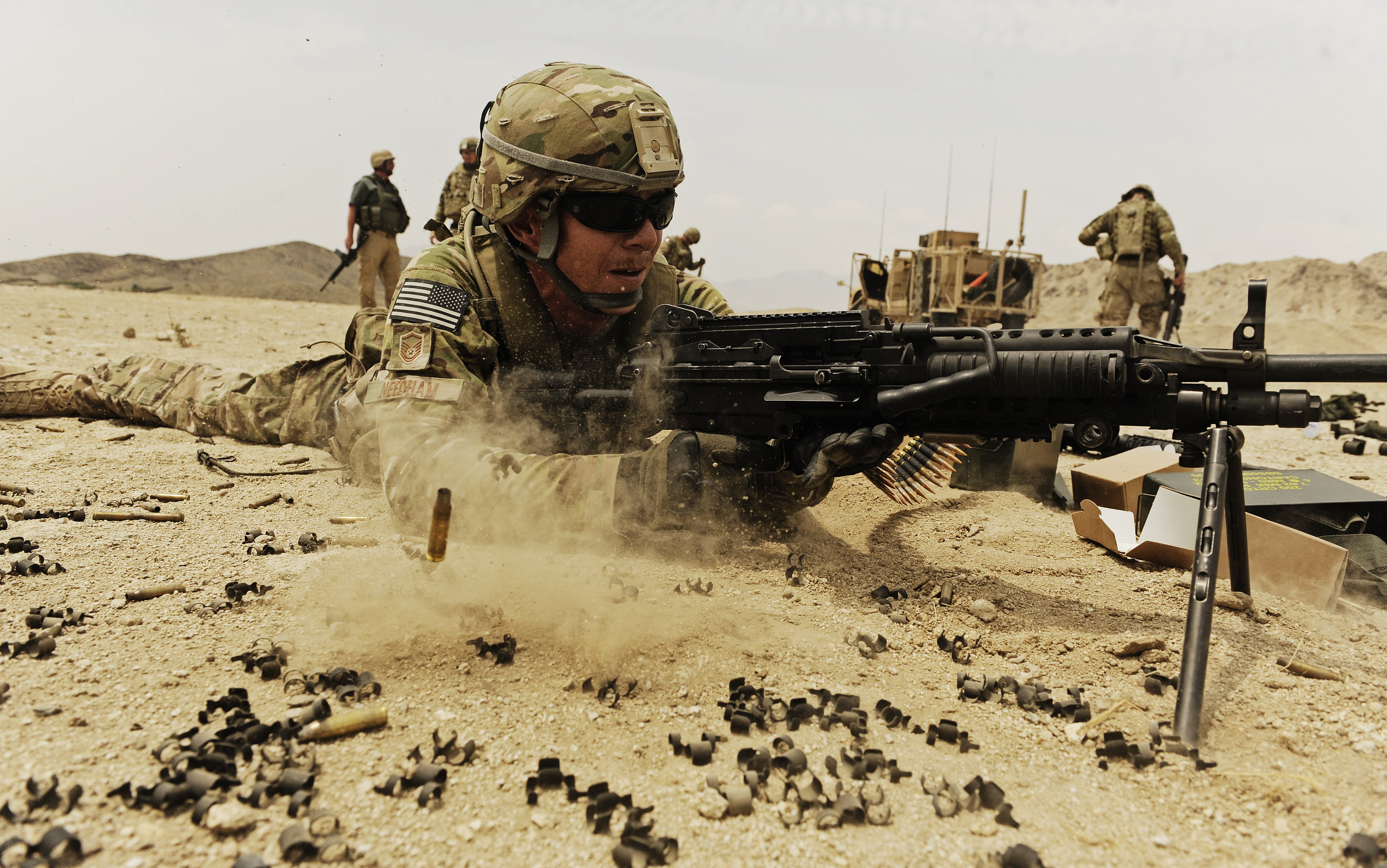 U.S. Air Force Master Sgt. Jeffery Needham, a staff platoon sergeant attached to the Laghman Provincial Reconstruction Team (PRT), fires his Mk-48 machine gun at wooden targets while practicing at an off-base firing range near Forward Operating Base Mehtar Lam on Aug. 6, 2011.